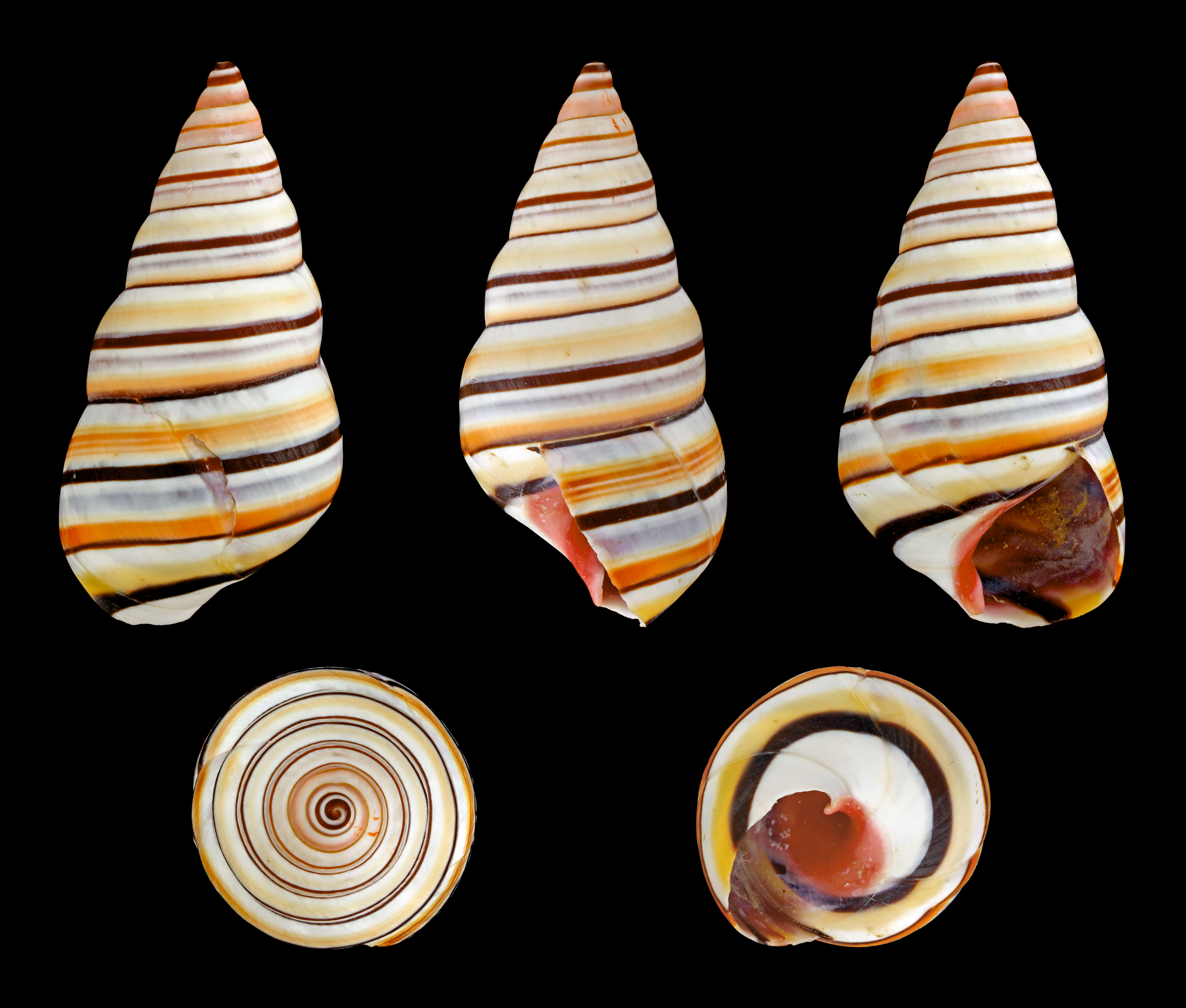 Candy Cane Snail; Length 5,8 cm; Originating from Hispaniola; Shell of own collection, therefore not geocoded. Dorsal, lateral (right side), ventral, back, and front view.